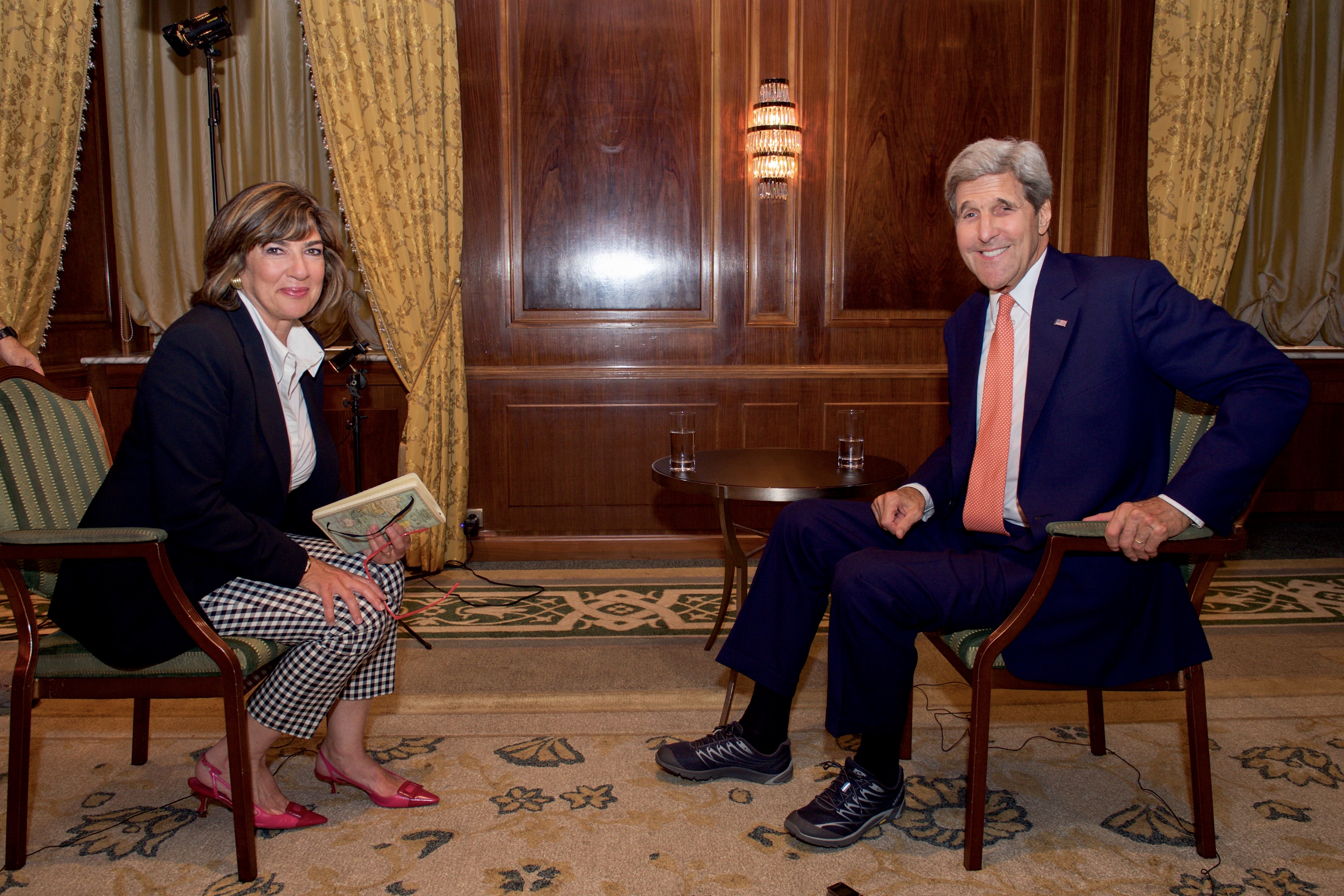 U.S. Secretary of State John Kerry sits with CNN Chief International Correspondent Christiane Amanpour in Vienna, Austria, on July 14, 2015, during a round-robin series of network television interviews after the European Union, United States, and the rest of its P5+1 partners reached agreement on a plan to prevent Iran from obtaining a nuclear weapon in exchange for sanctions relief. [State Department photo/ Public Domain]